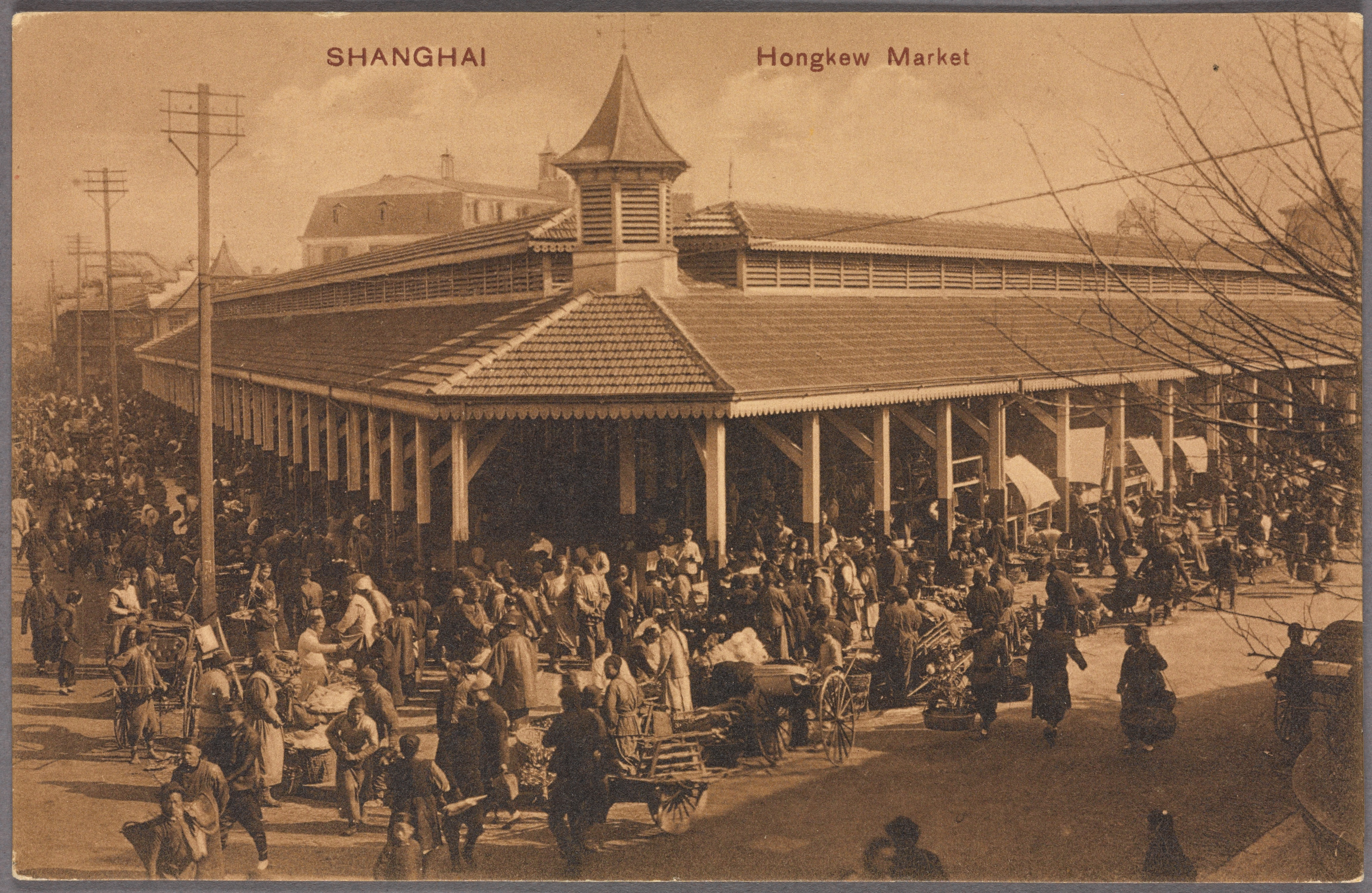 "Kuhn & Komor, Art Curios Palace Hotel Building, Shanghai" "Branches: Yokohama, Hongkong, Singapore."--printed on verso.